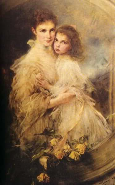 Marie Valerie of Austria and her daughter Elisabeth